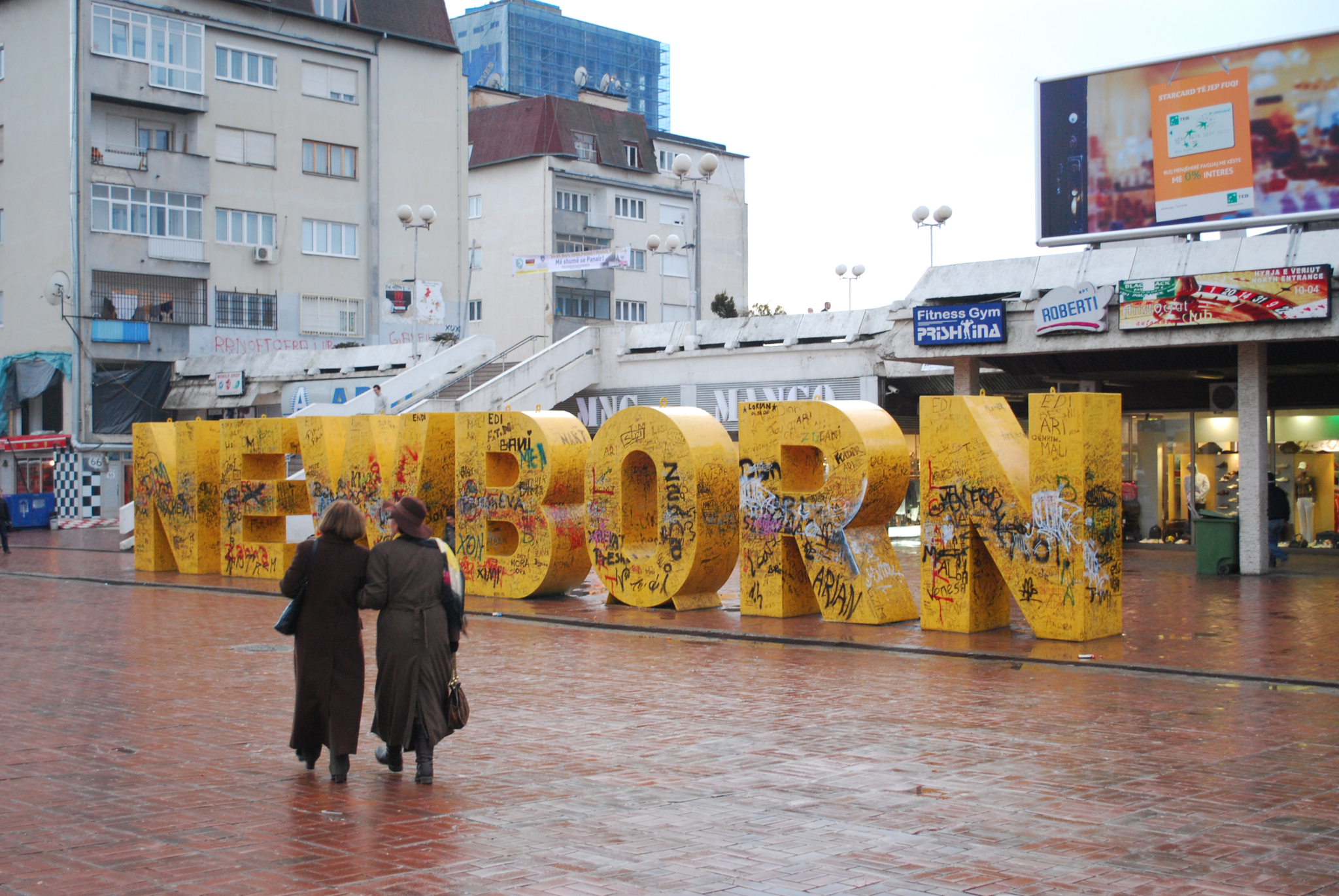 Newborn Monument in Pristina, Kosovo